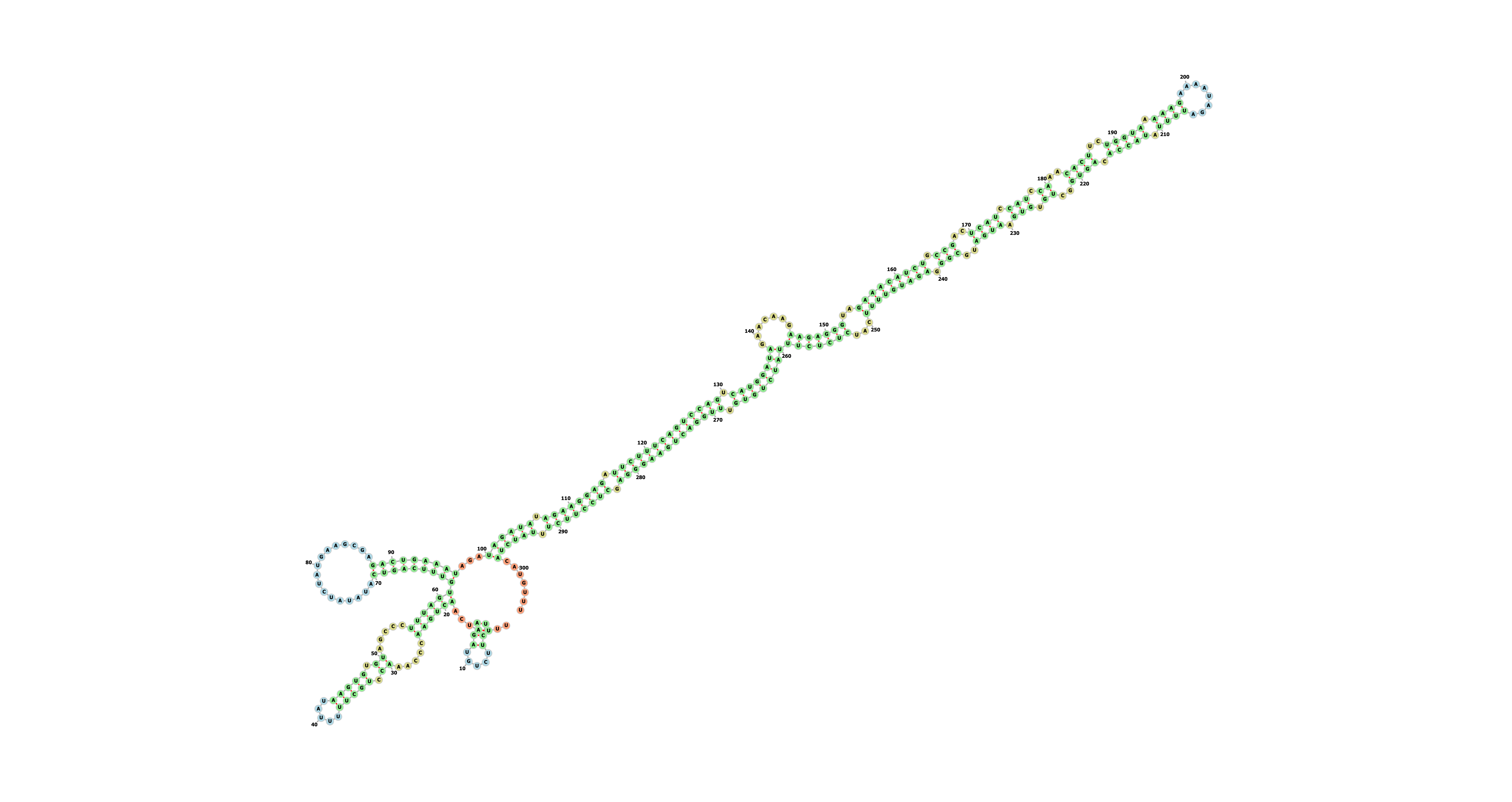 Secondary structure of pre-MIR319c in Brassica oleracea obtained with RNAfold software.